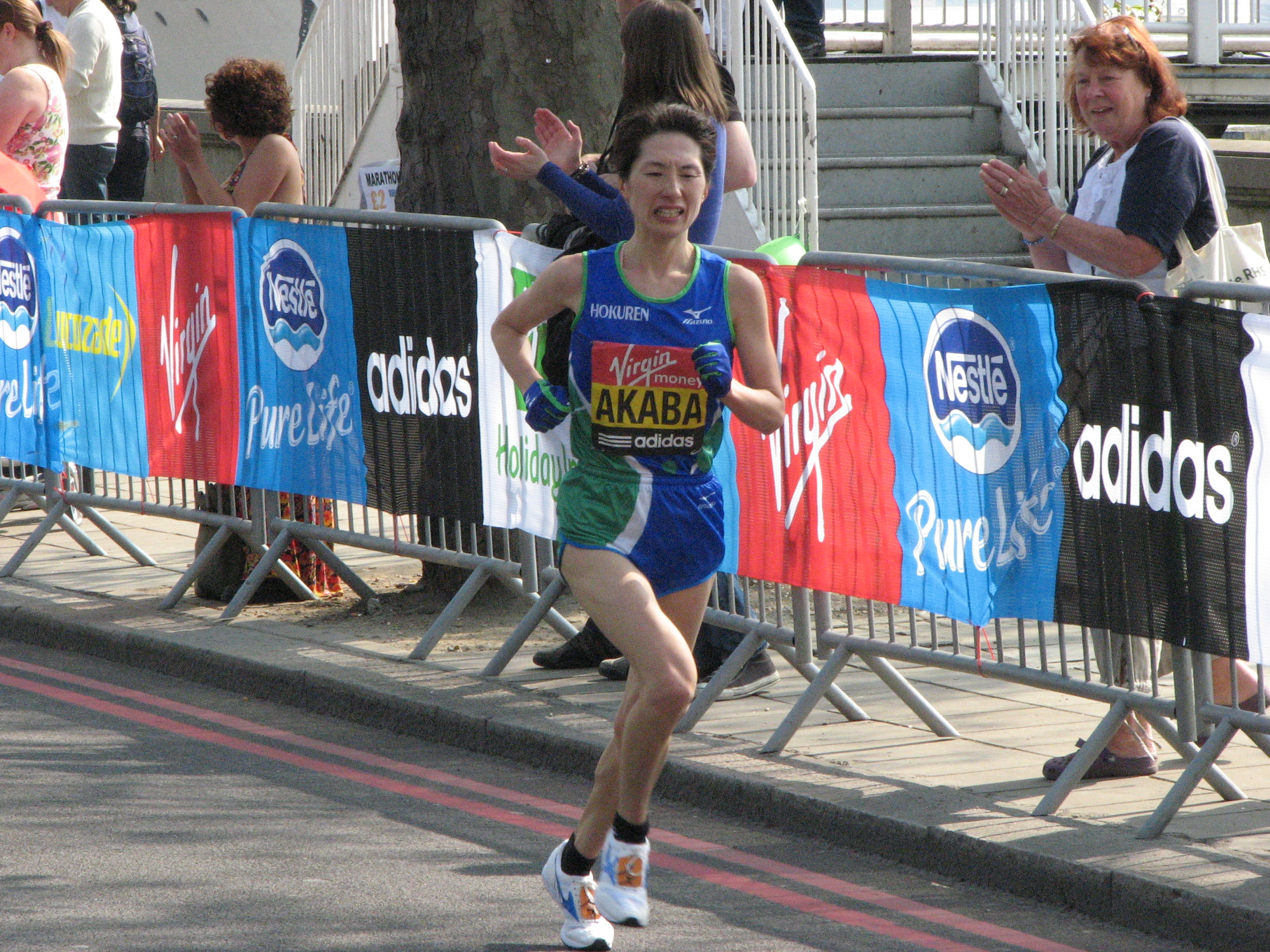 Yukiko Akaba came 6th in 2:24:09, the first Japanese woman home. Virgin London Marathon, 17 April 2011. Taken from 24 and a half miles, at the (western) junction of Victoria Embankment and Temple Place, very close to the Walkabout.